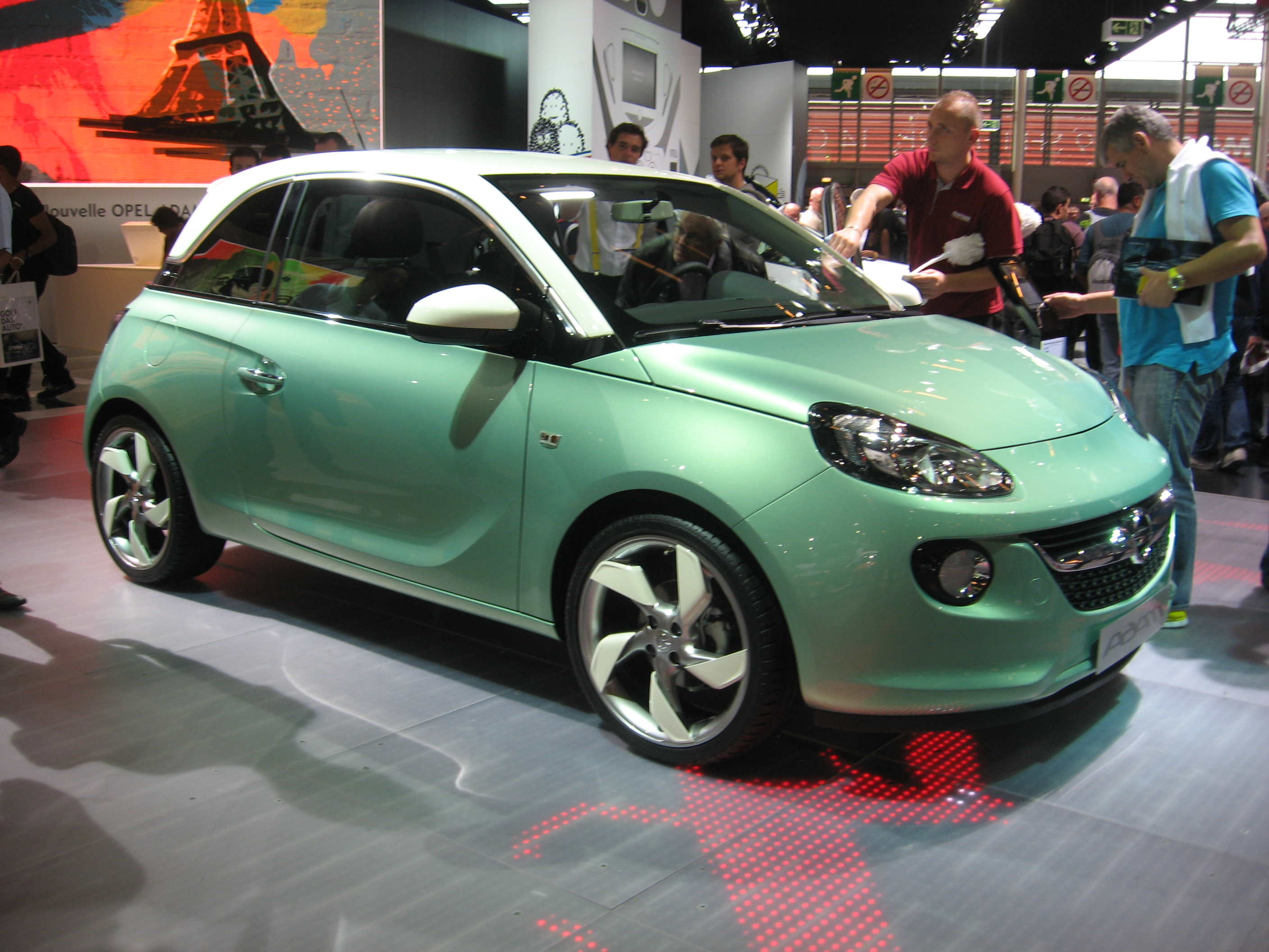 Subject: Opel Adam Author: Luc106 Date:September 29th, 2012 Event: Salon de l'Automobile 2012 Place/Country: Parc des Expositions, Porte de Versailles, Paris I release all rights in the public domain.